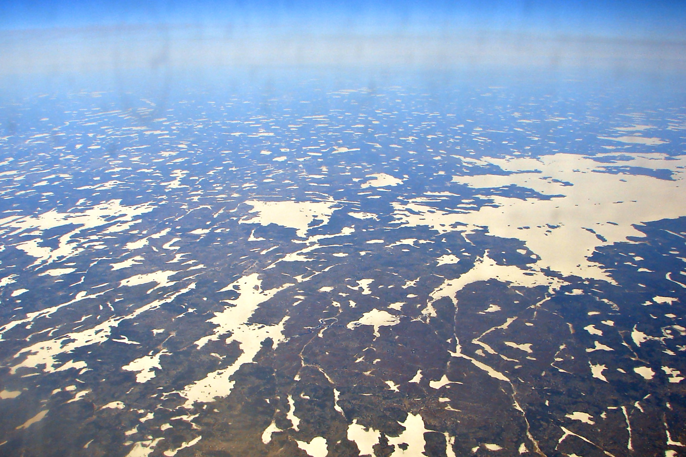 Aerial view of northern Kenora District with Big Trout Lake (largest lake on right side), Ontario, Canada